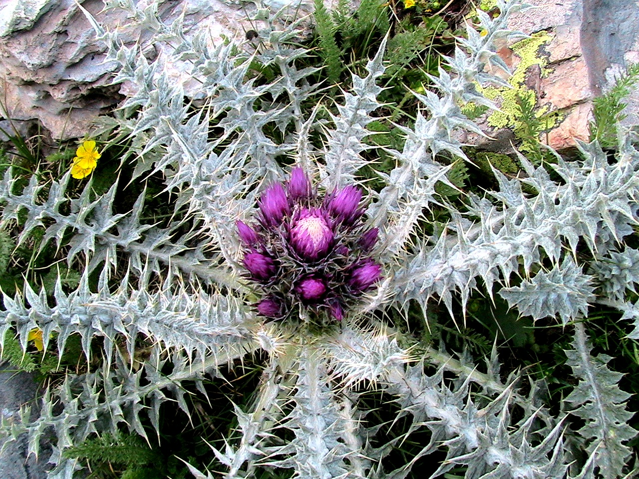 Carduus carlinoides. In Cabdella (Pallars Jussà - Catalunya. To 2.110 m altitude